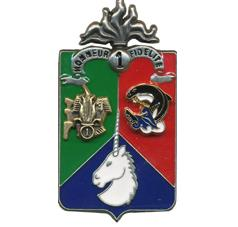 Badge 21st RIMA, 1st R.E.C and 1st R.E.G, Opération Licorne 2002 (Côte d'Ivoire).